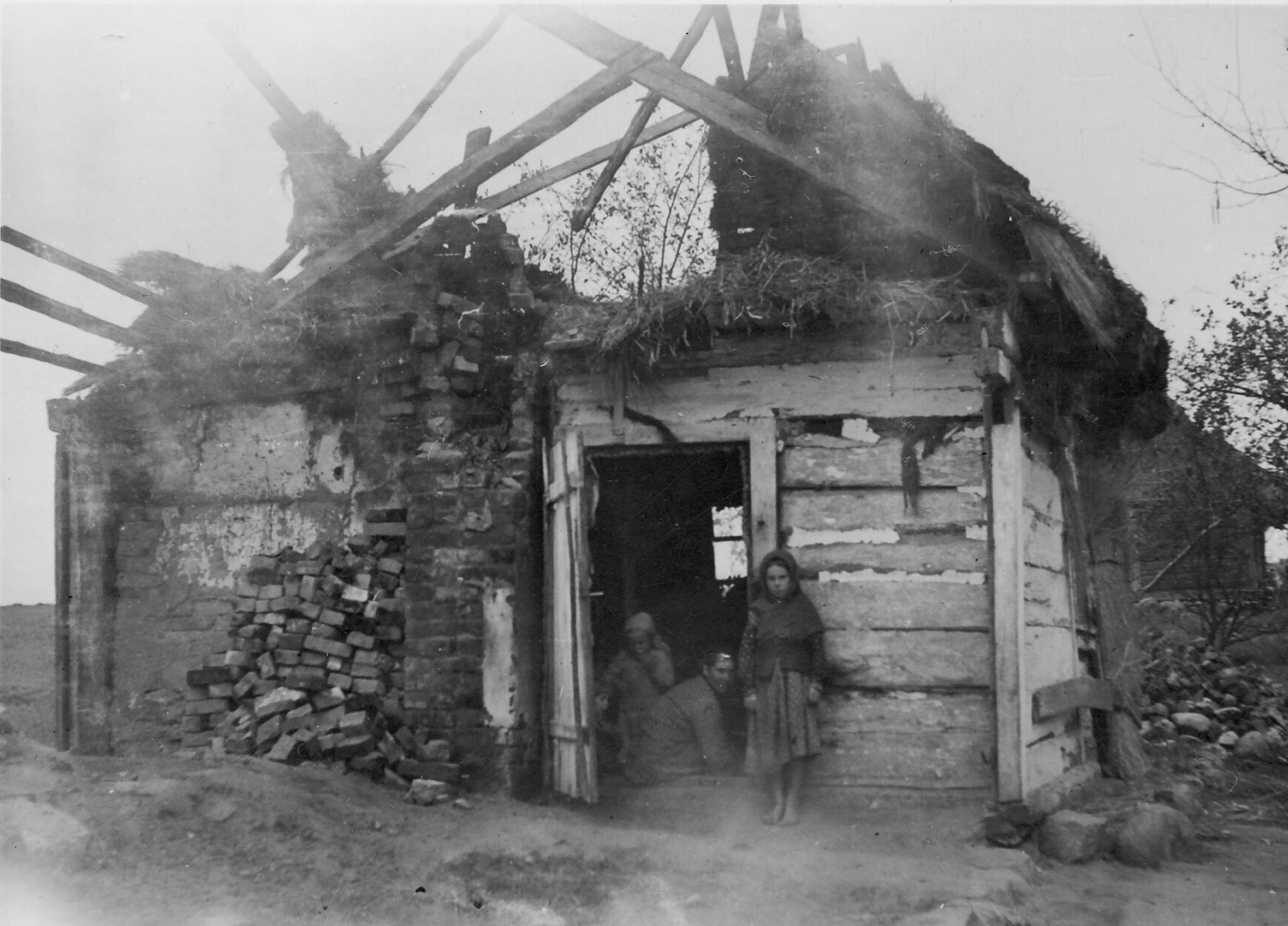 Eastern Poland farmhouse destroyed during German invasion in 1941. Territory of todays Belarus or Ukraine.